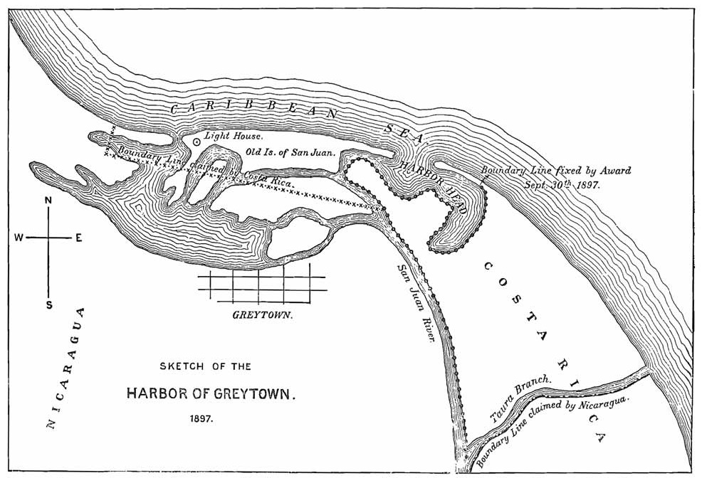 Sketch of the harbor of Greytown (San Juan del Norte) area, contained in the first arbitration award of Gen. Edward Porter Alexander, granted Sep. 30, 1897, for the determination of the border between the Republics of Nicaragua and Costa Rica